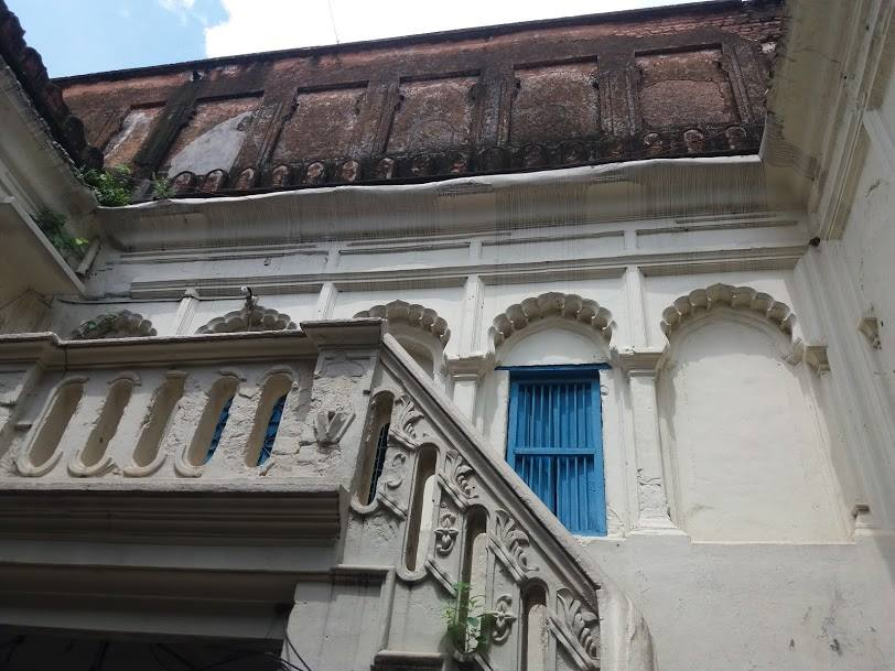 ঢাকার একটি তিনশত বছরের পুরনো মন্দির